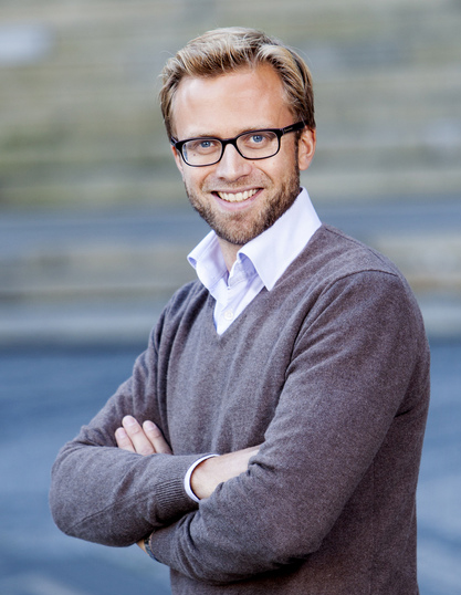 Photo byline: nyebilder.no